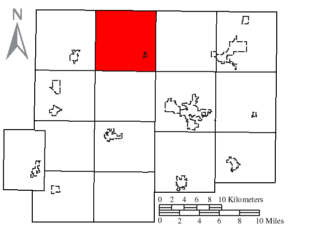 Made by the US Census and modified by myself